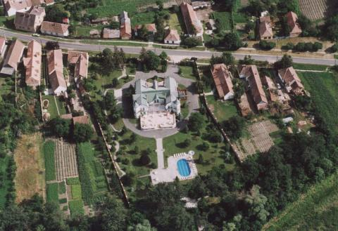 Sobor, Hungary, aerialphotography